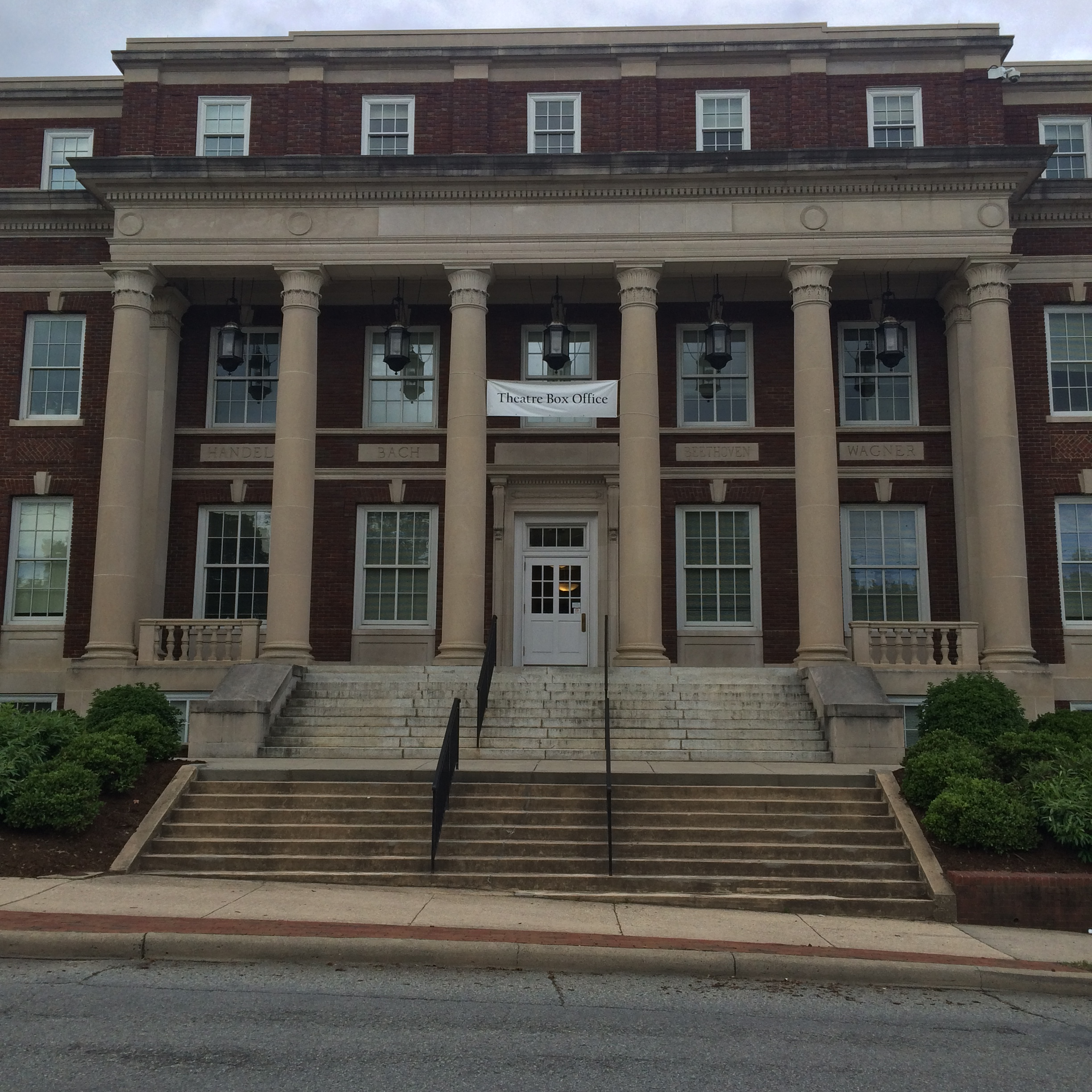 Brown Theatre Building at the University of North Carolina at Greensboro